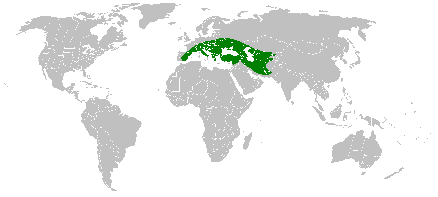 Distribution of Thinopyrum intermedium.